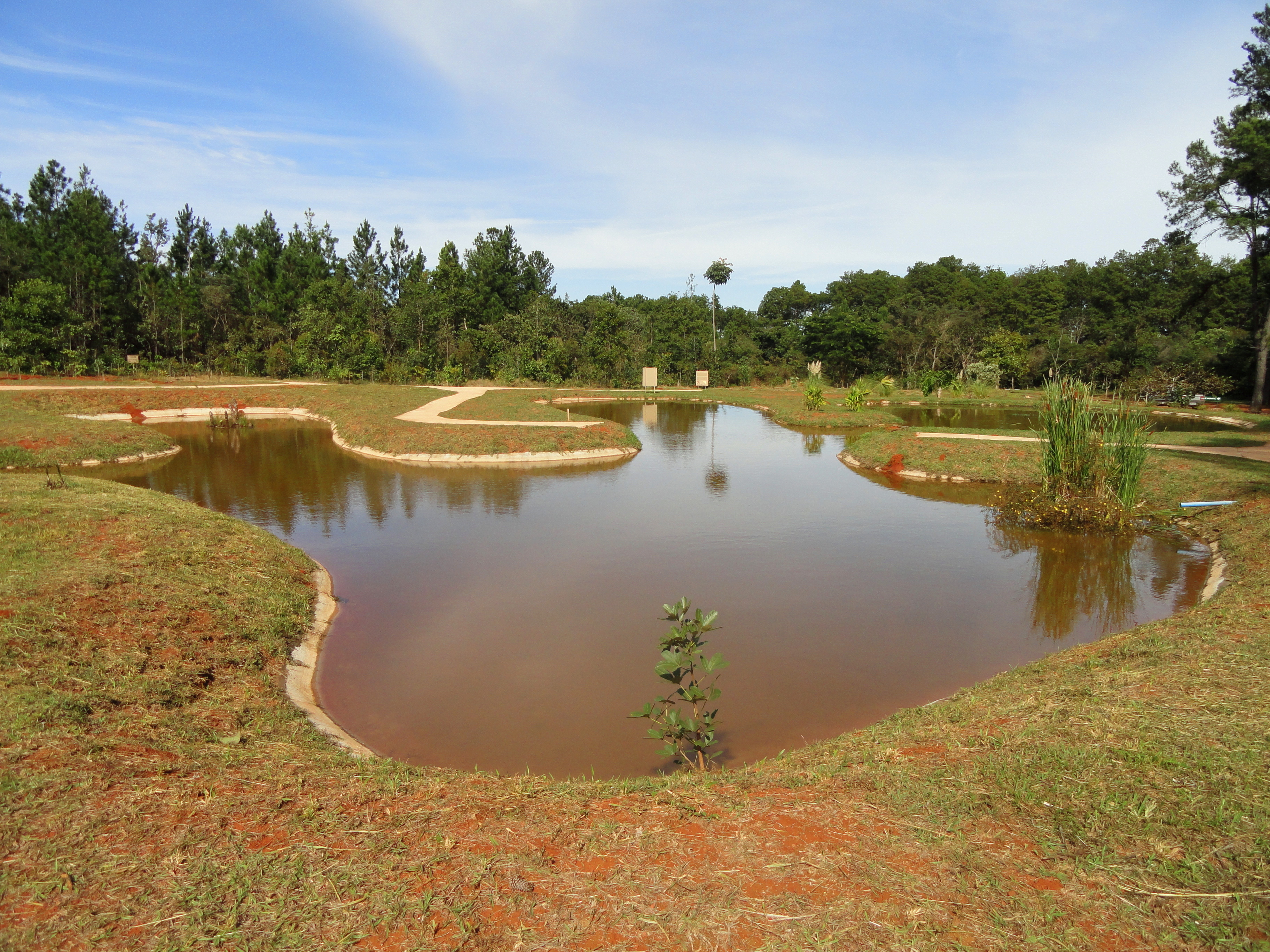 Jardim de Contemplação - Jardim Botânico de Brasília, Brasília, Brazil.